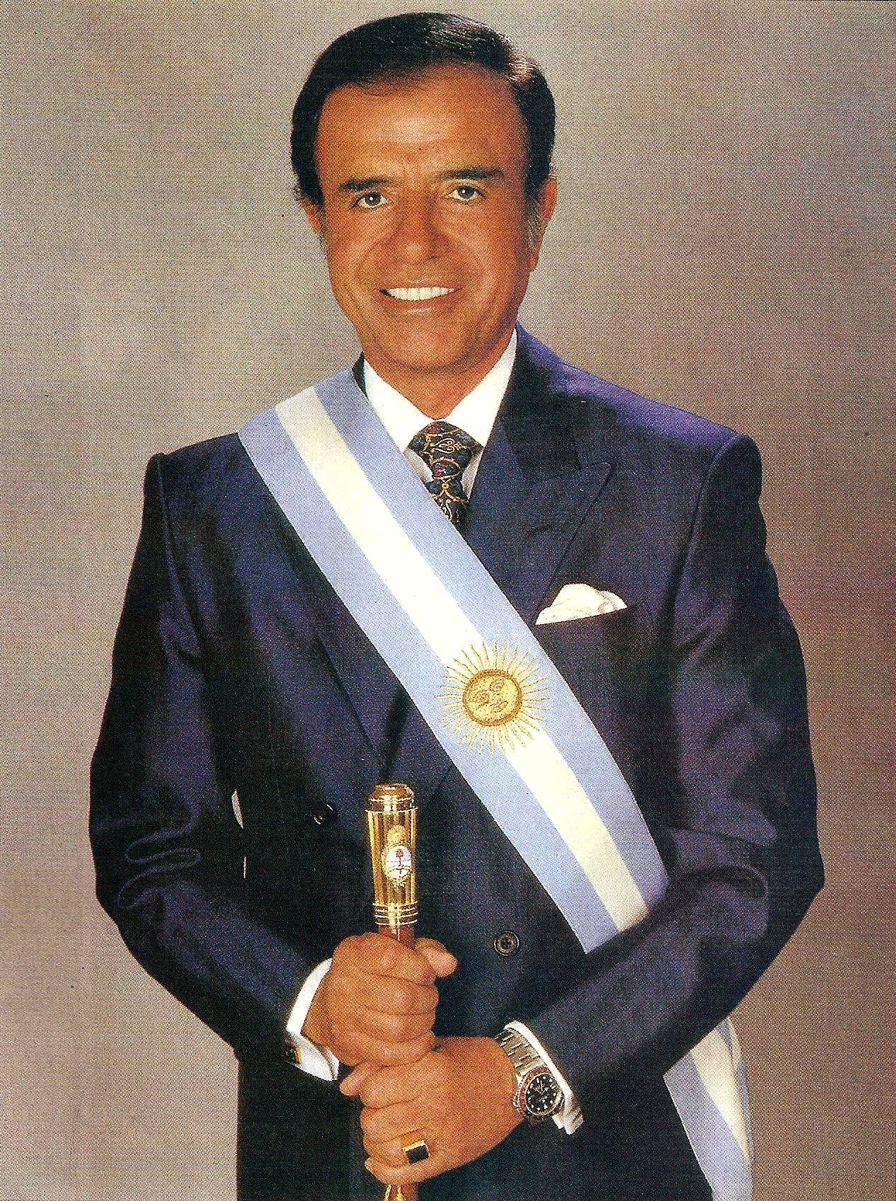 Carlos Menem with the presidential sash, official photo. He governed from 1989 to 1999.